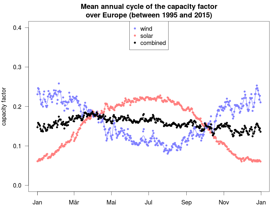 Seasonal cycle of capacity factors for wind and photovoltaics in Europe under idealized assumptions. For wind and PV an equal distribution over Europe has been assumed and a modern wind energy turbine and PV module has been assumed. Details of the methodology are described in Kaspar et al. 2019